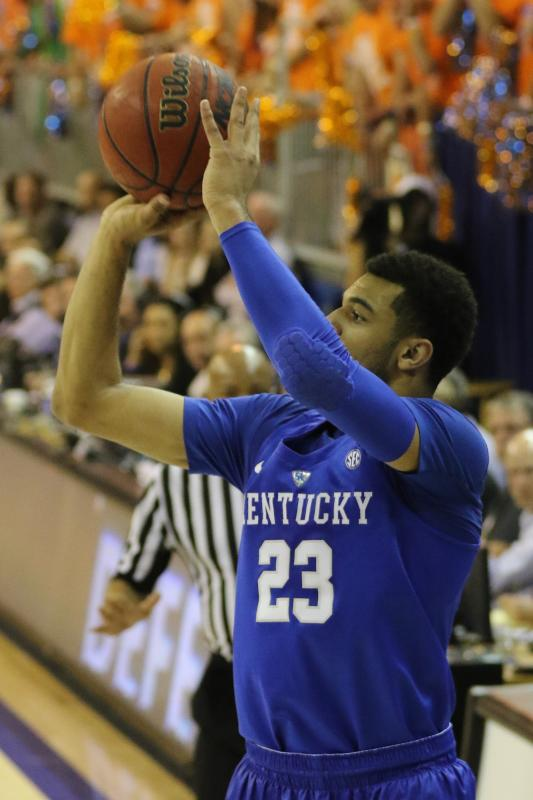 Jamal Murray of Kentucky